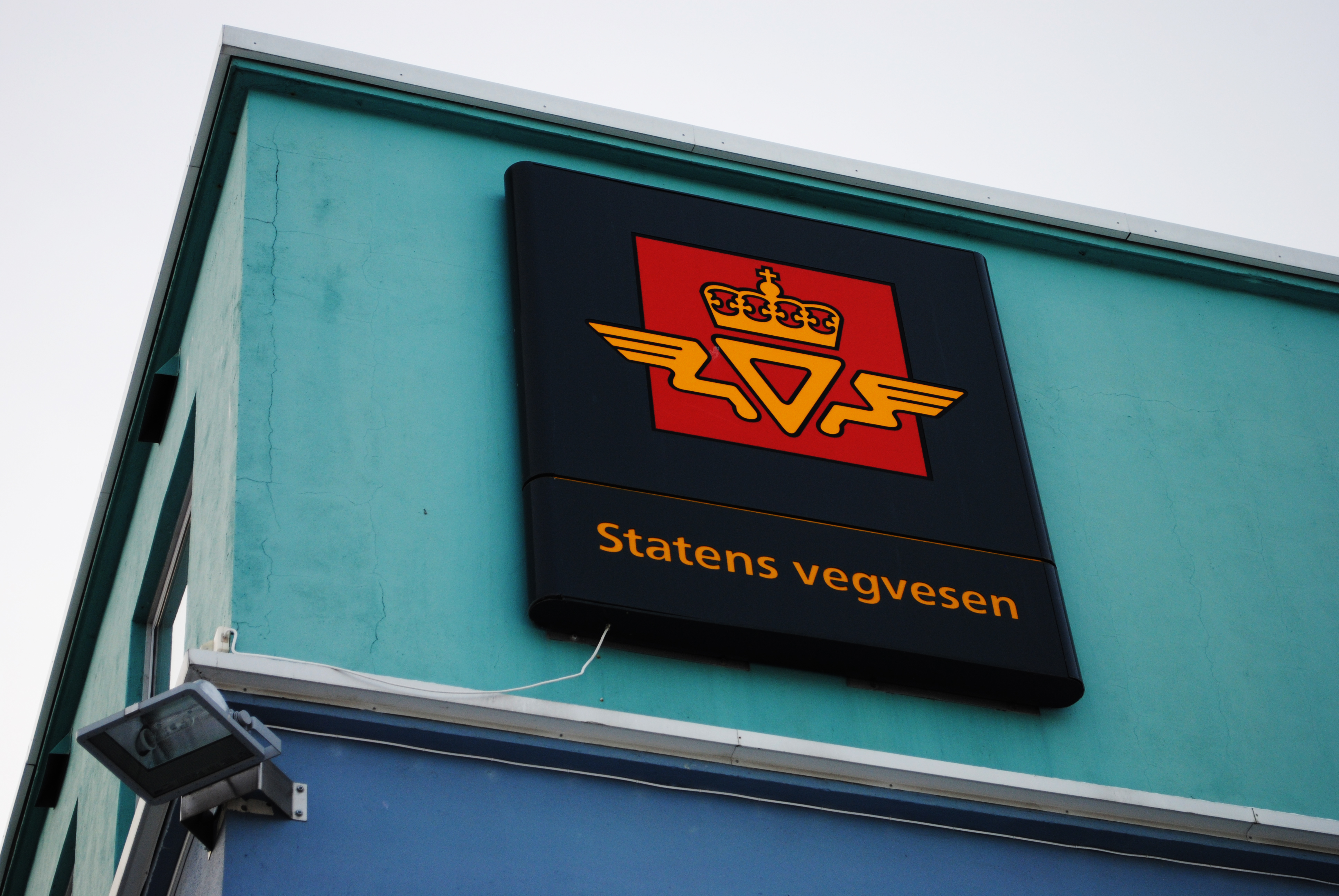 Logo of the Norwegian Public Roads Administration on a sign.